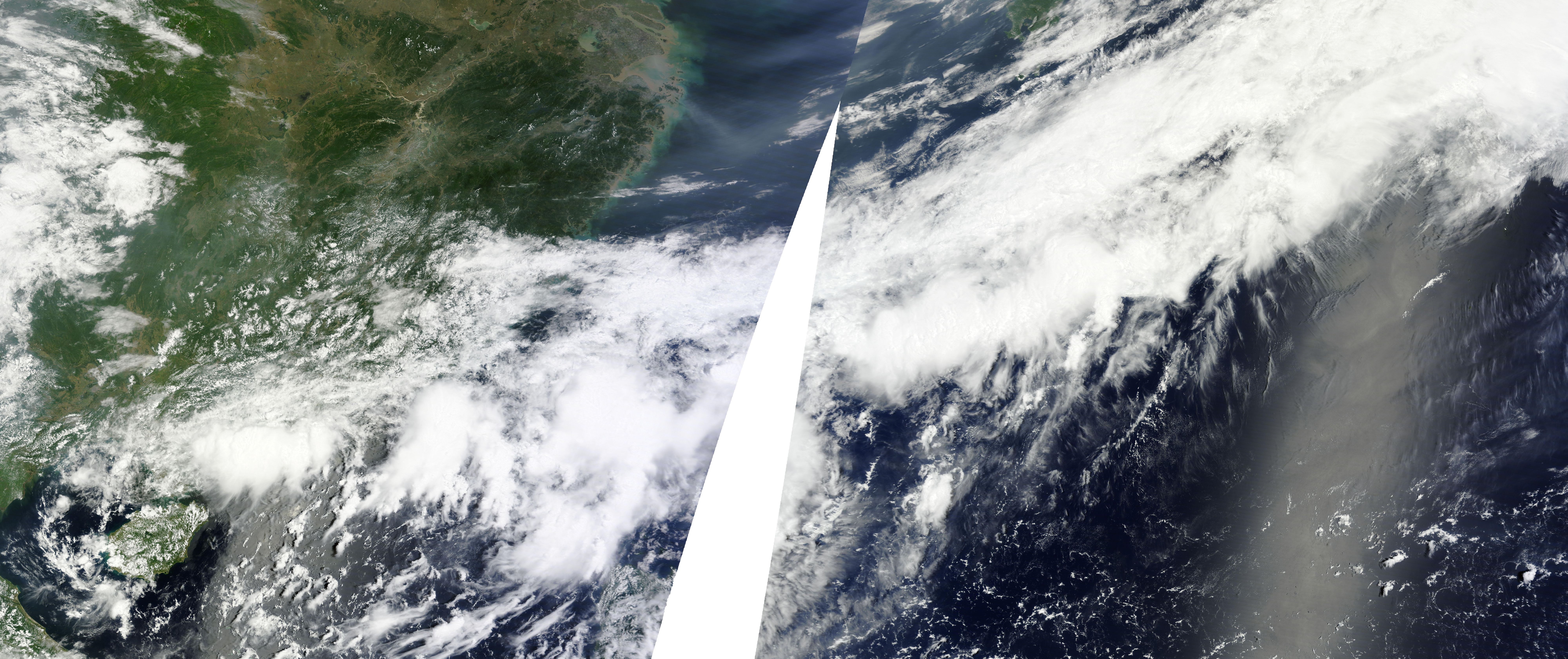 Monsoon trough over eastern Asia on May 17 2012.